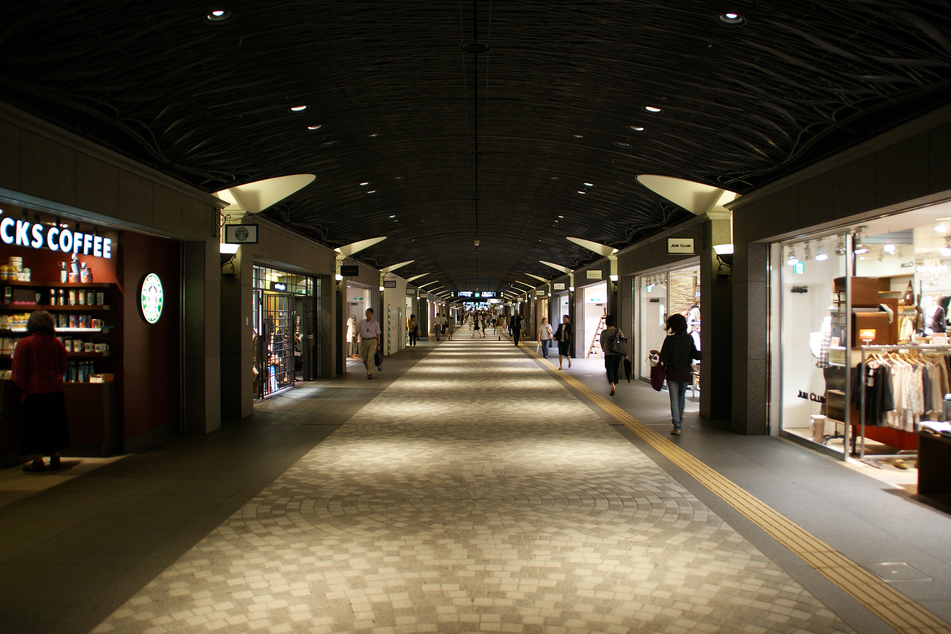 Tenjin Chikagai (Tenjin underground city) in Chuo-ku, Fukuoka City, Fukuoka Prefecture, Japan